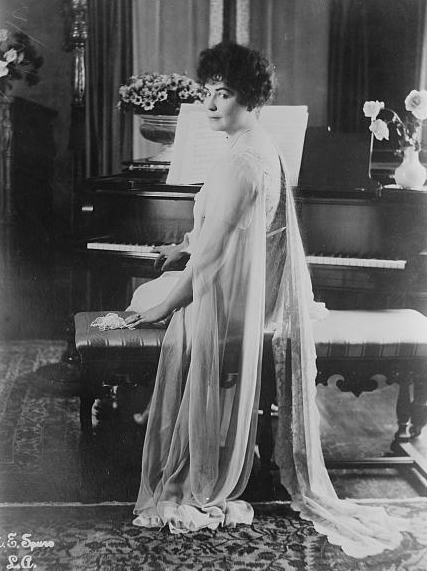 Lois Weber at her piano, which she had played since she was a young girl. Her first step into the life of the famous was as a singer and piano player, which she had perfected in her church choir.